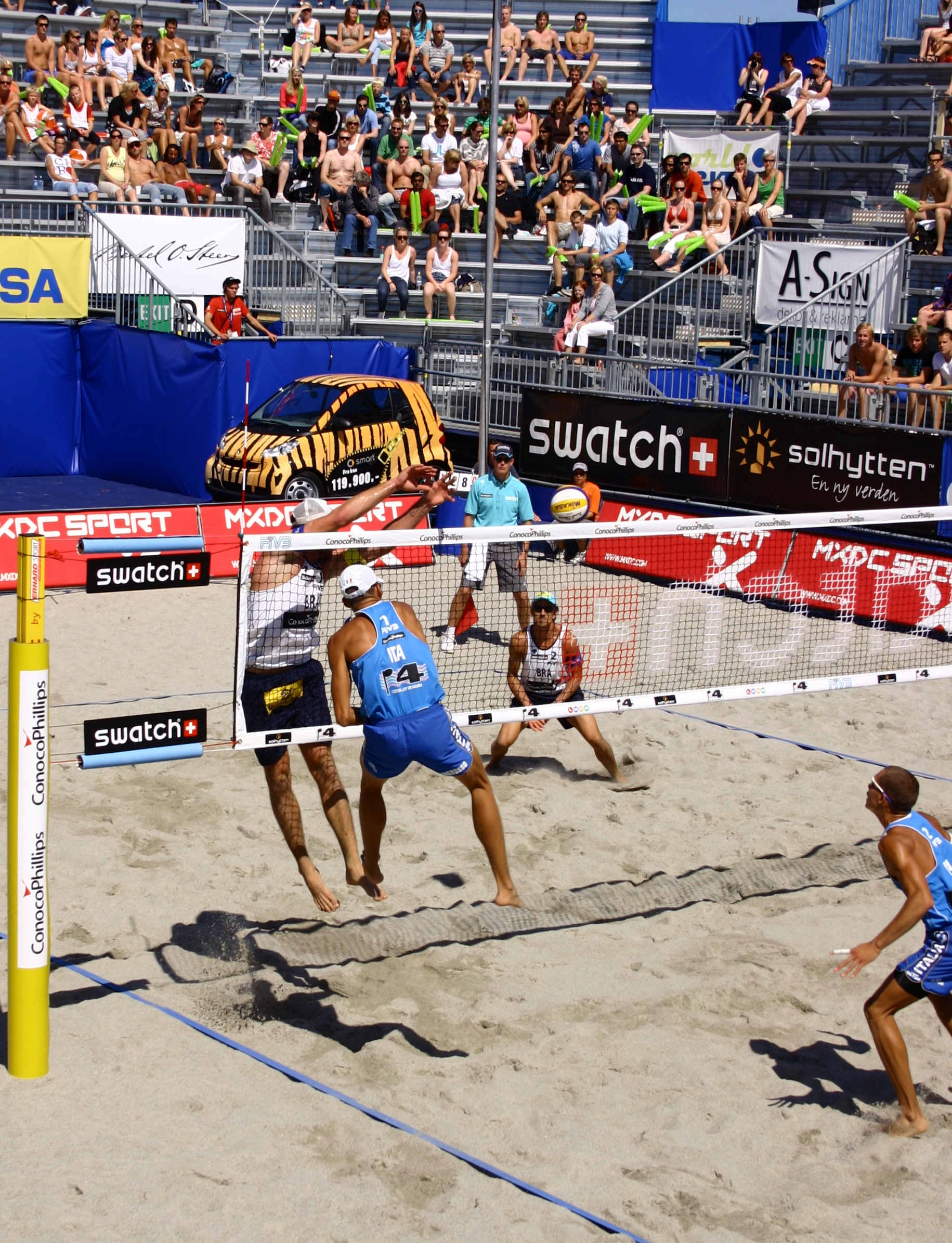 A playing action during FIVB World Tour in Stavanger